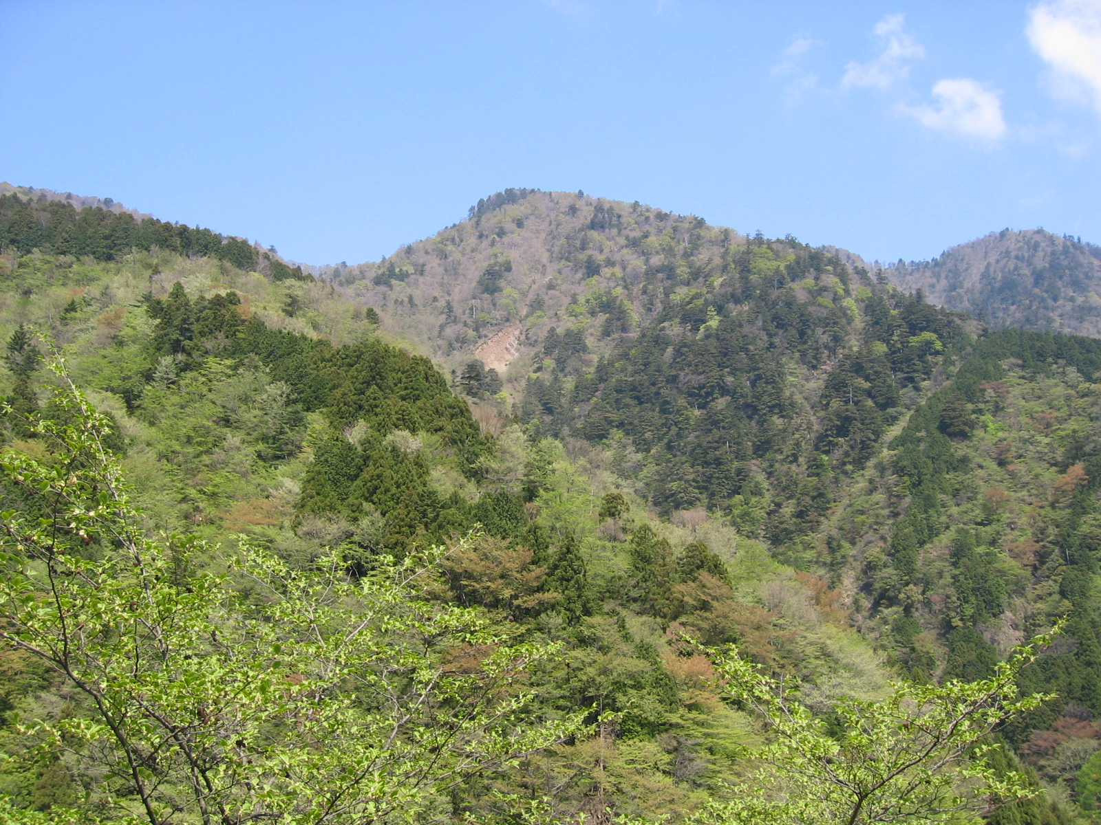 Mt.Enzanginoatama (円山木ノ頭 Enzangi-no-atama) as seen from Shiomizu-rindou, Kiyokawa village, Kanagawa prefecture, Japan.